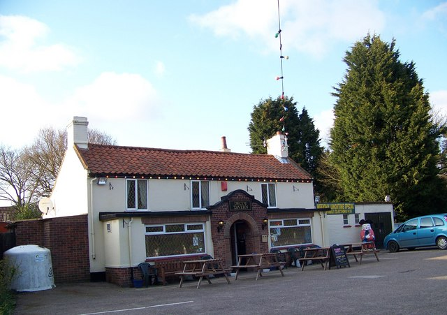 The Decoy Tavern, Fritton The pub stands beside the A143 main Beccles road.